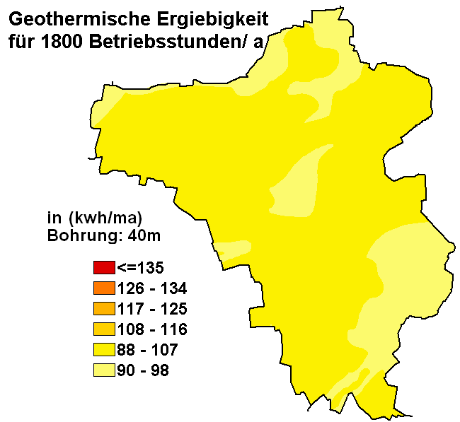 geothermal map of von Langenberg (Kreis Gütersloh)